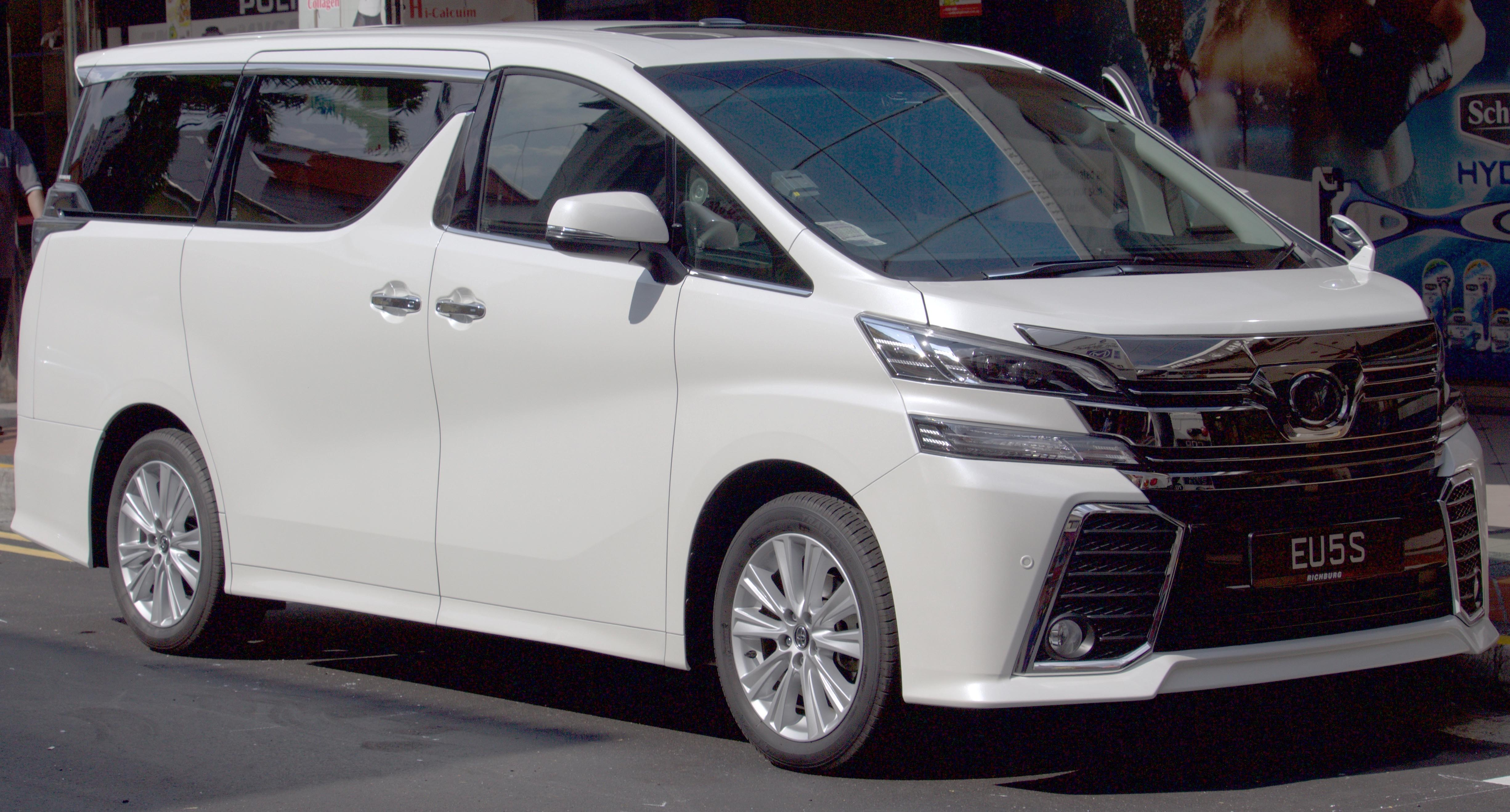 2015 Toyota Vellfire ZA van, photographed at Little India, Singapore. Vehicle registration enquiry resultsJurisdictionSingaporeRegistrationEU5SChassis codeGGH300005603Engine code2GRK106382Year of manufacture2015